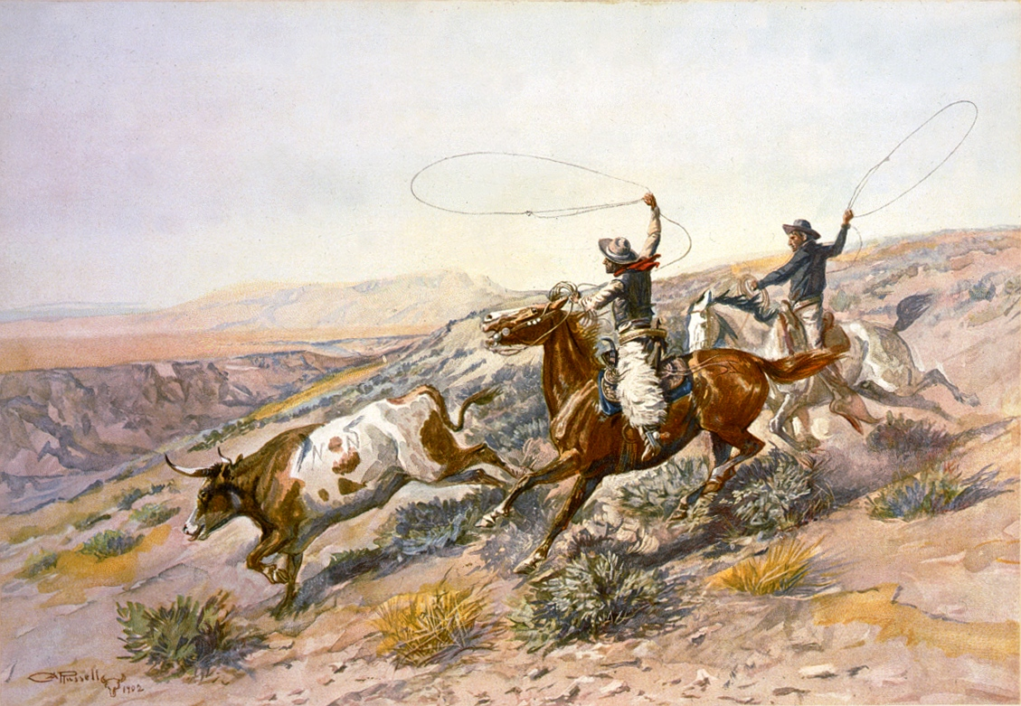 "Buccaroos" by Charles Marion Russell. Lithograph. Compare his 1899 (?) painting, "Herd Quitters".